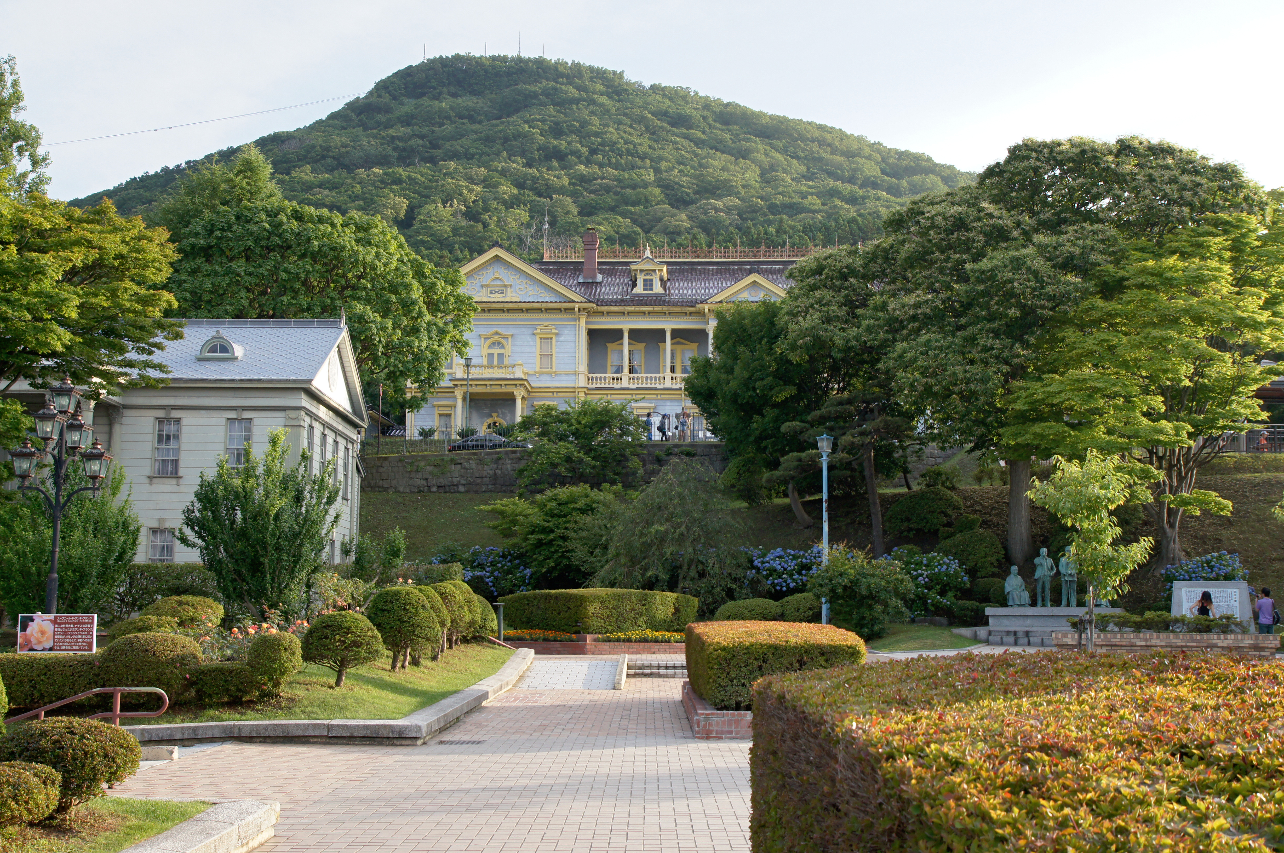 Motomachi_Park in Hakodate, Hokkaido prefecture, Japan